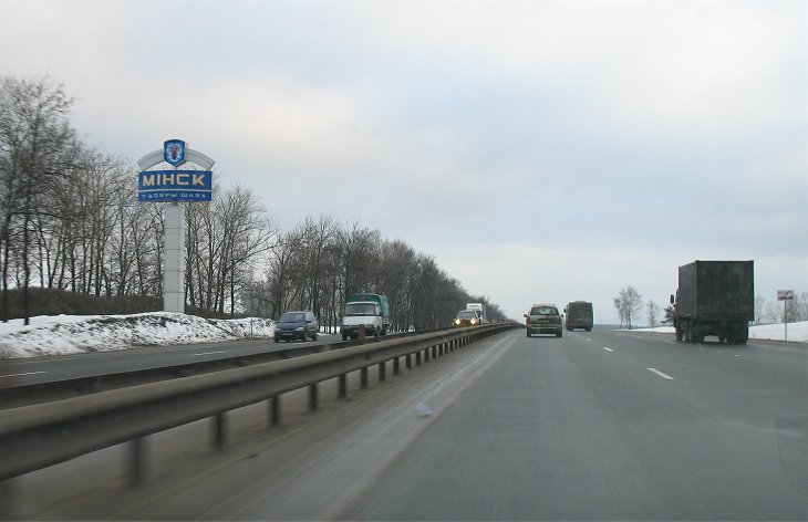 European highway E271 i.e. national highway M4 and M5 seen after Minsk Road M9, when leaving from Minsk city towards southeast, as both M4 and M5 are still together. Minsk, Minsk oblast (region), Belarus.